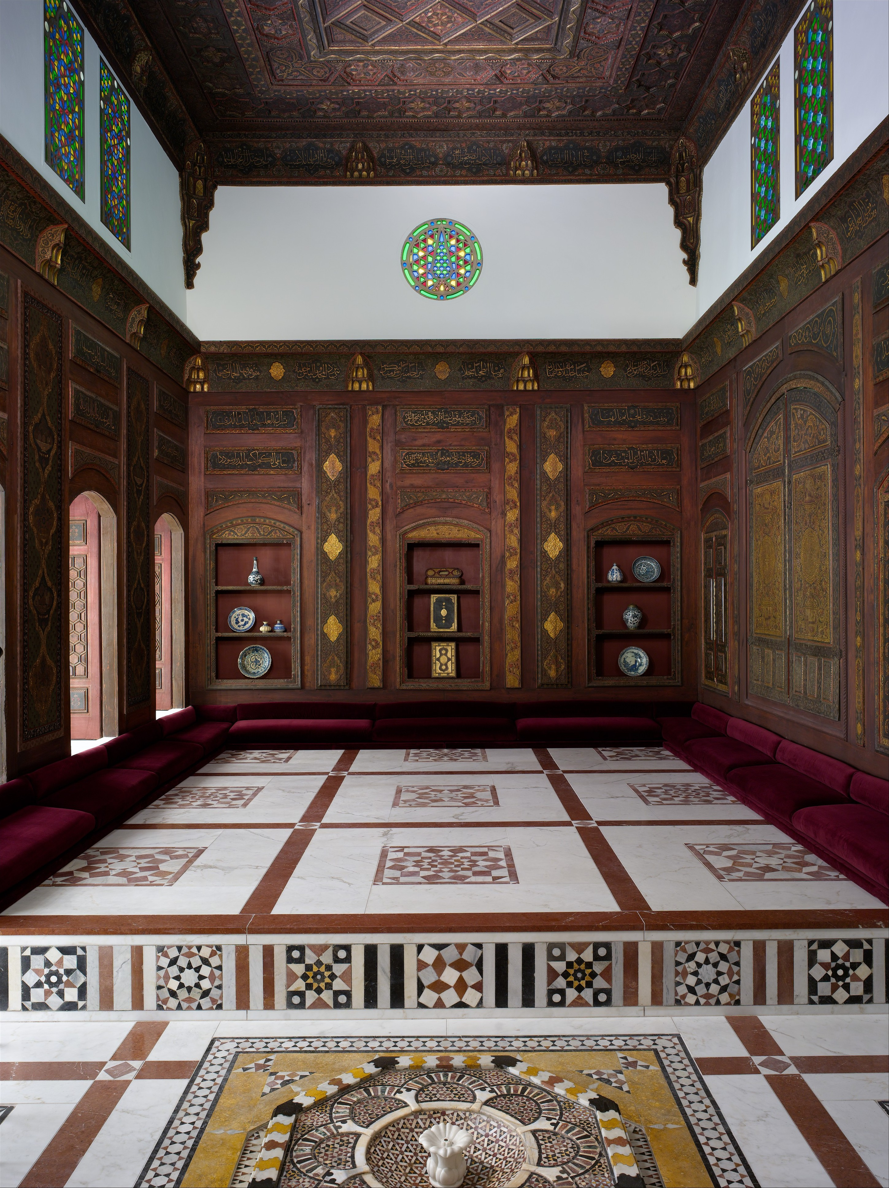 Period room; Wood